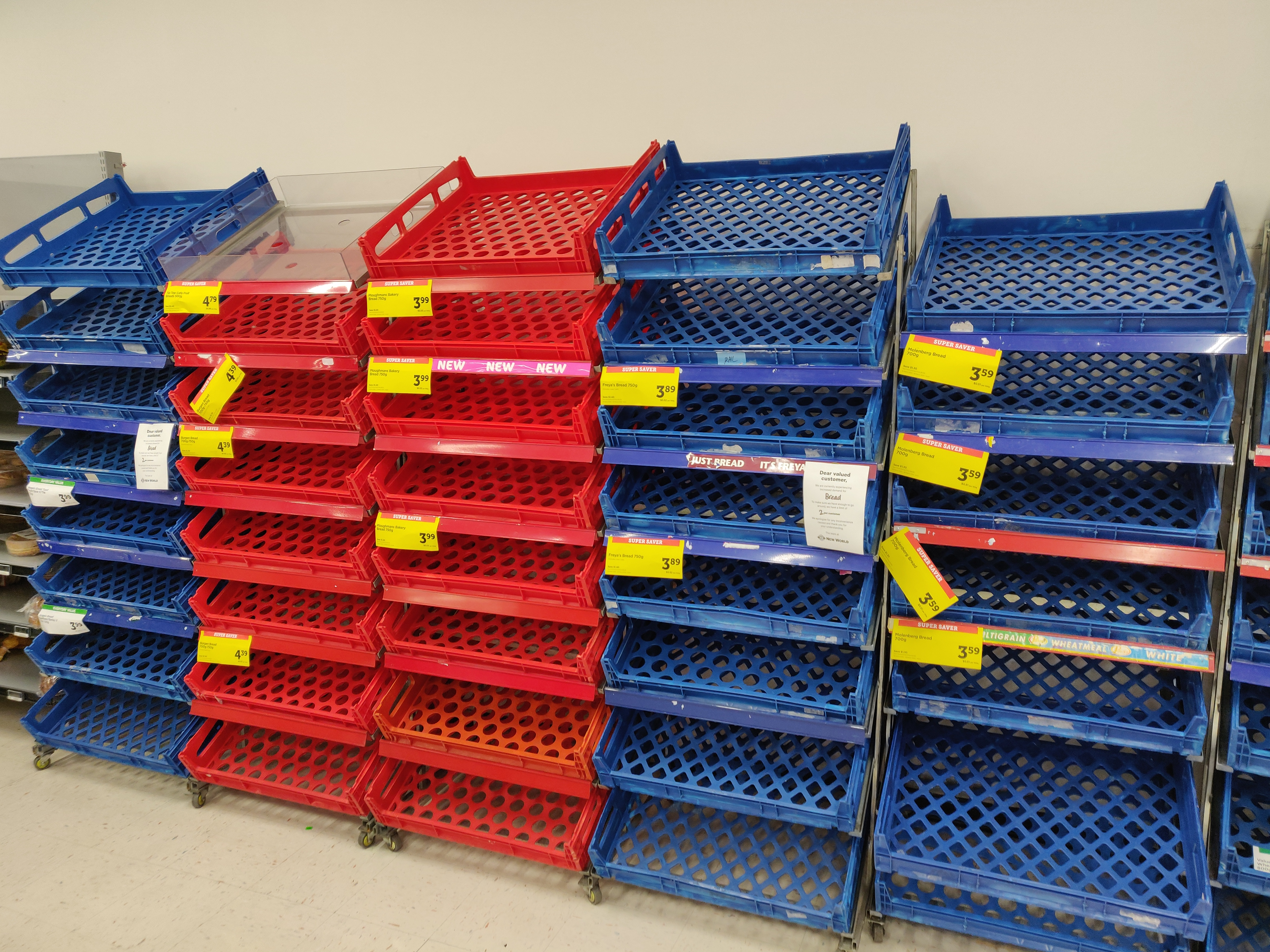 Empty shelves for bread at Island Bay New World, Wellington, NZ during the pandemic